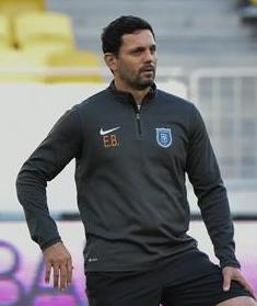 Abdullah Avcı